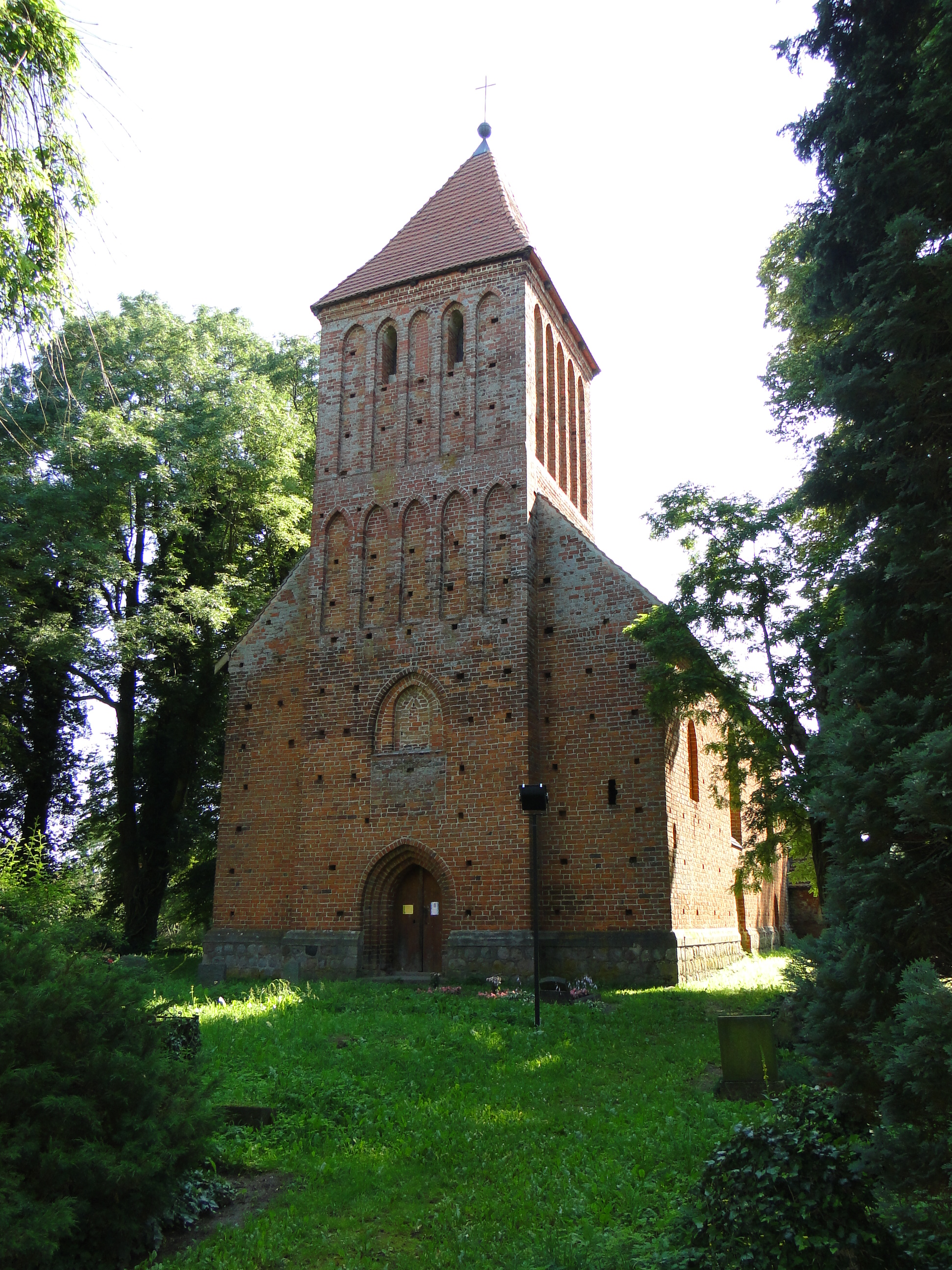 Church in Kirch Kogel, district Güstrow, Mecklenburg-Vorpommern, Germany